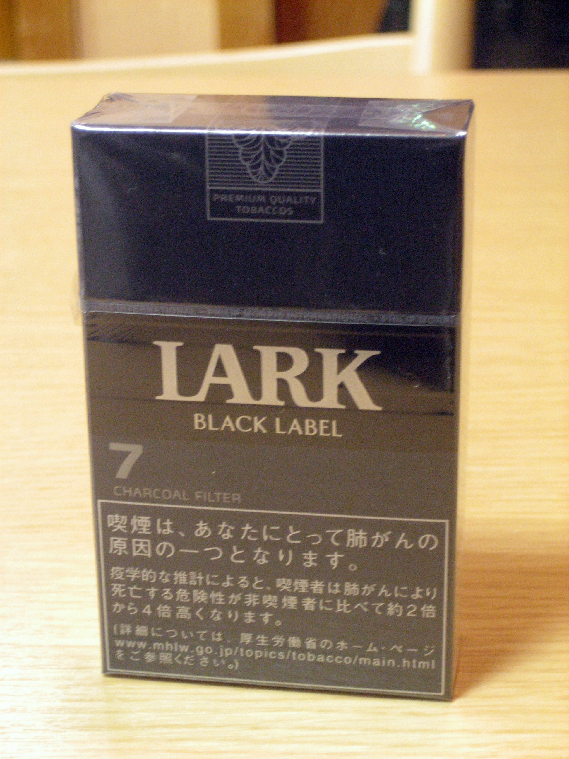 Cigarette that Philip Morris is selling in Japan.